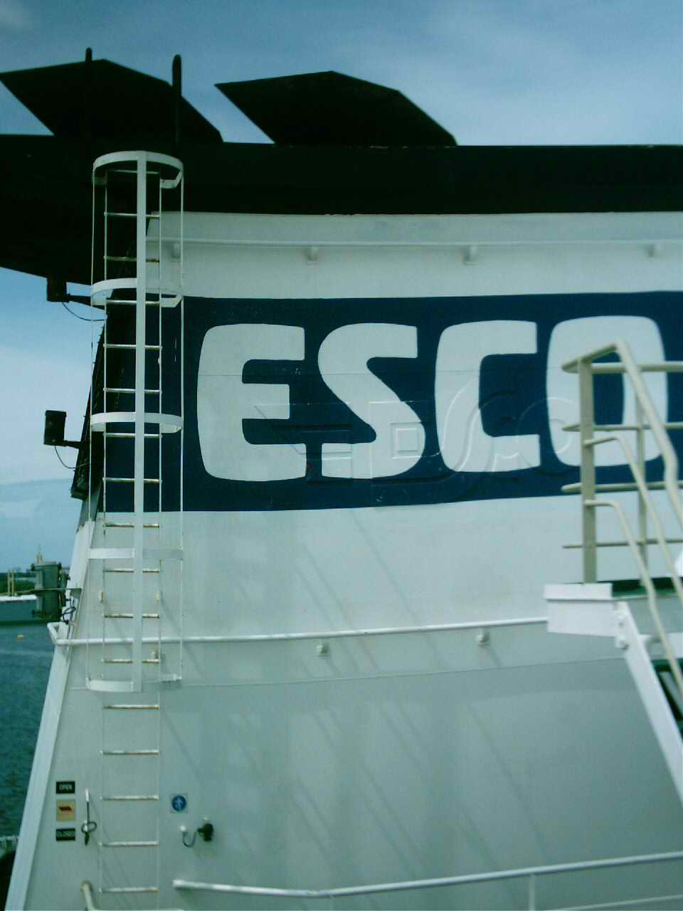 Former ESCO Lembitu funnel, Rostock 14 June 2003